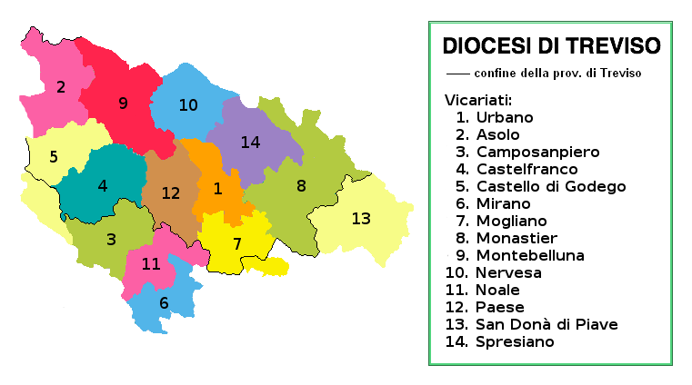 Map of the Roman Catholic Diocesis of Treviso, Italy.